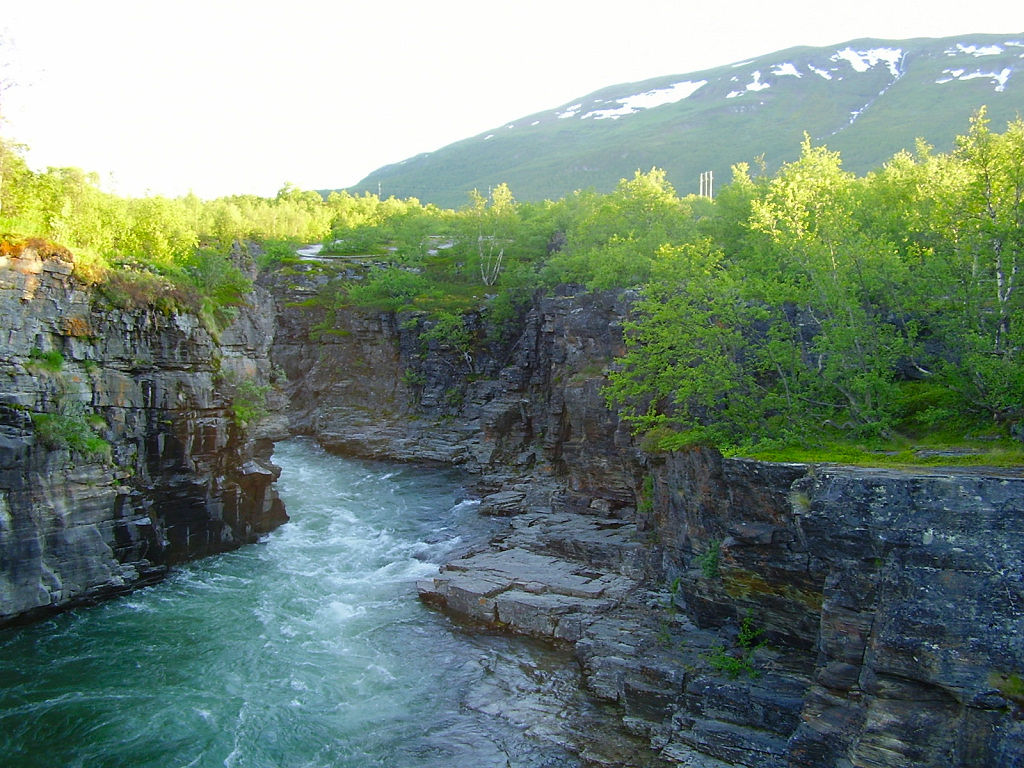 North Sweden